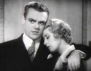 screenshot of James Cagney and Joan Blondell from the film Footlight Parade